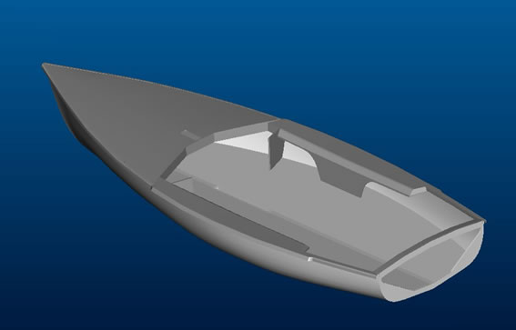 computer simulated model of a modern Flying Funior